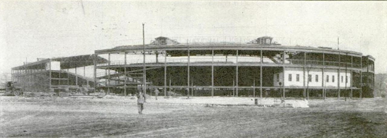 Image from the corner of Clark and Addison showing the Cubs Park (later Wrigley Field) grandstand divided into three sections as part of the 1922-23 expansion.